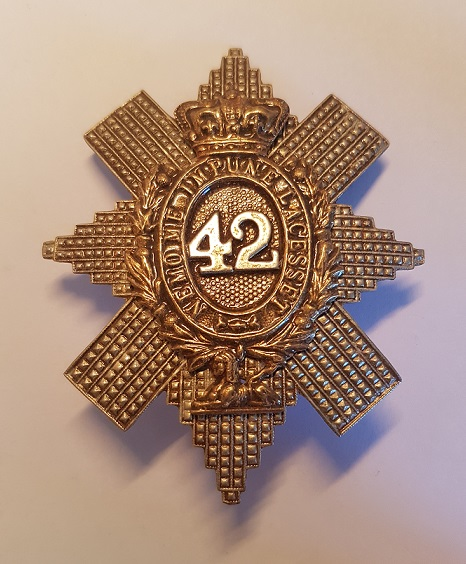 42nd Regiment of Foot Cap Badge from personal collection